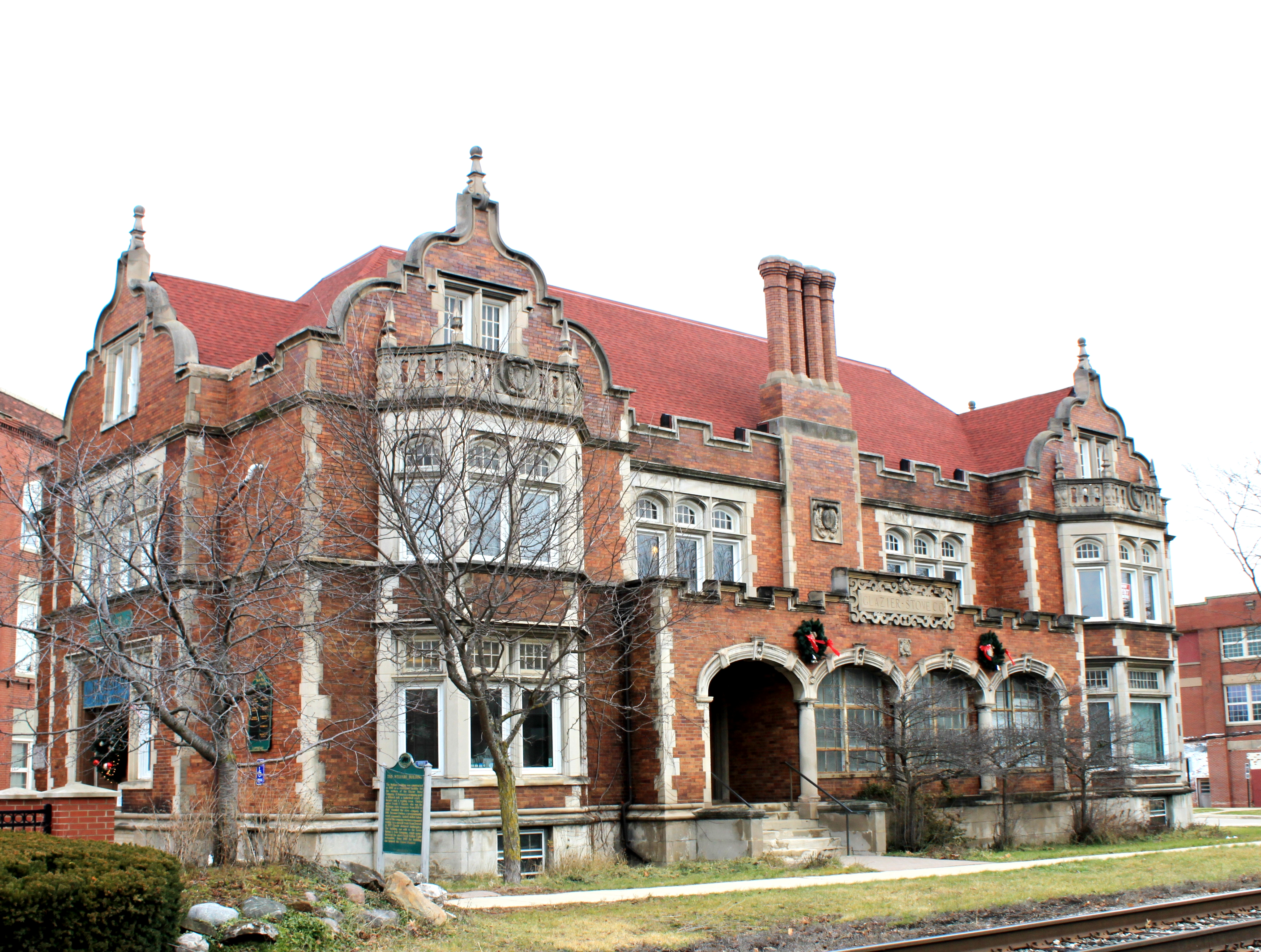 Historic Welfare Building — 300 North Main Street, Chelsea, Michigan. The Renaissance Revival style building is a Registered Michigan State Historic Site.